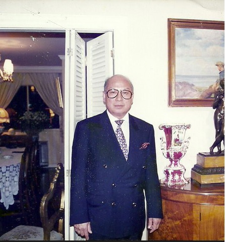 Photo of Prakong Polahan